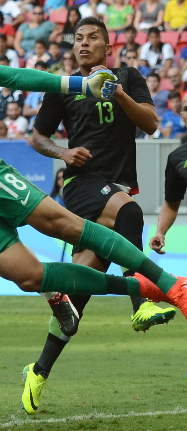 Brasília - Equipes masculinas do futebol olímpico da Coreia do Sul e México jogam no Estádio Mané Garrincha (Gustavo Gomes/Agência Brasil)